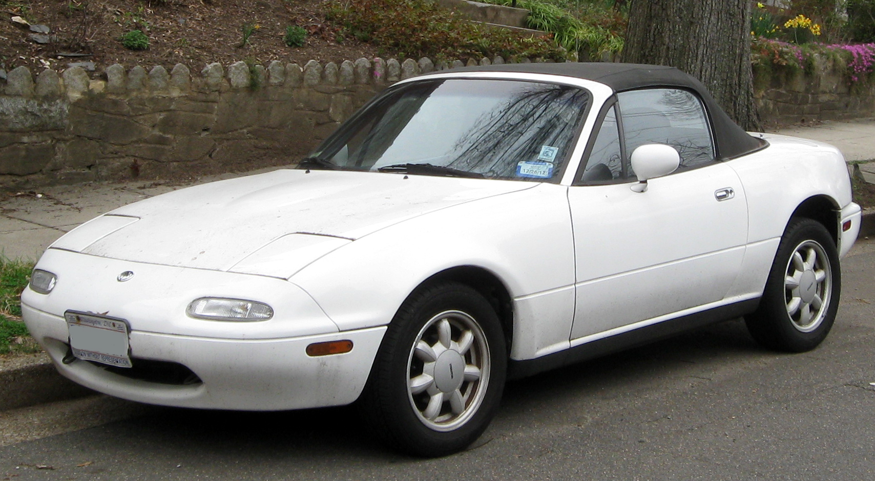 Mazda Miata photographed in Washington, D.C., USA.